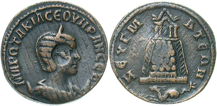 Otacilia Severa, wife of Philip the Arab. Æ 28. Diademed & draped bust of Otacilia Severa right. Temple at the end of a walled grove shown in elongated view; capricorn below.